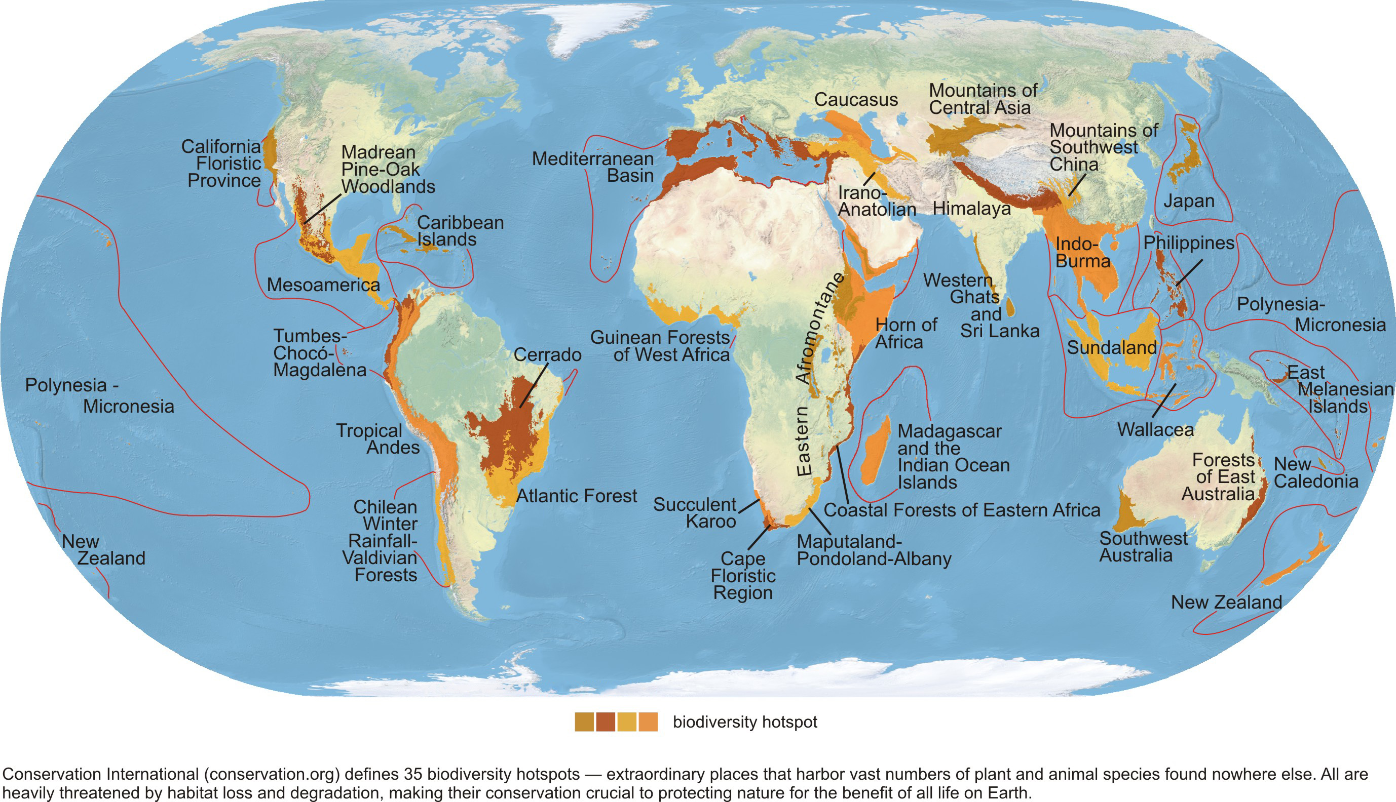 Conservation International defines 35 biodiversity hotspots — extraordinary places that harbor vast numbers of plant and animal species found nowhere else. All are heavily threatened by habitat loss and degradation, making their conservation crucial to protecting nature for the benefit of all life on Earth.